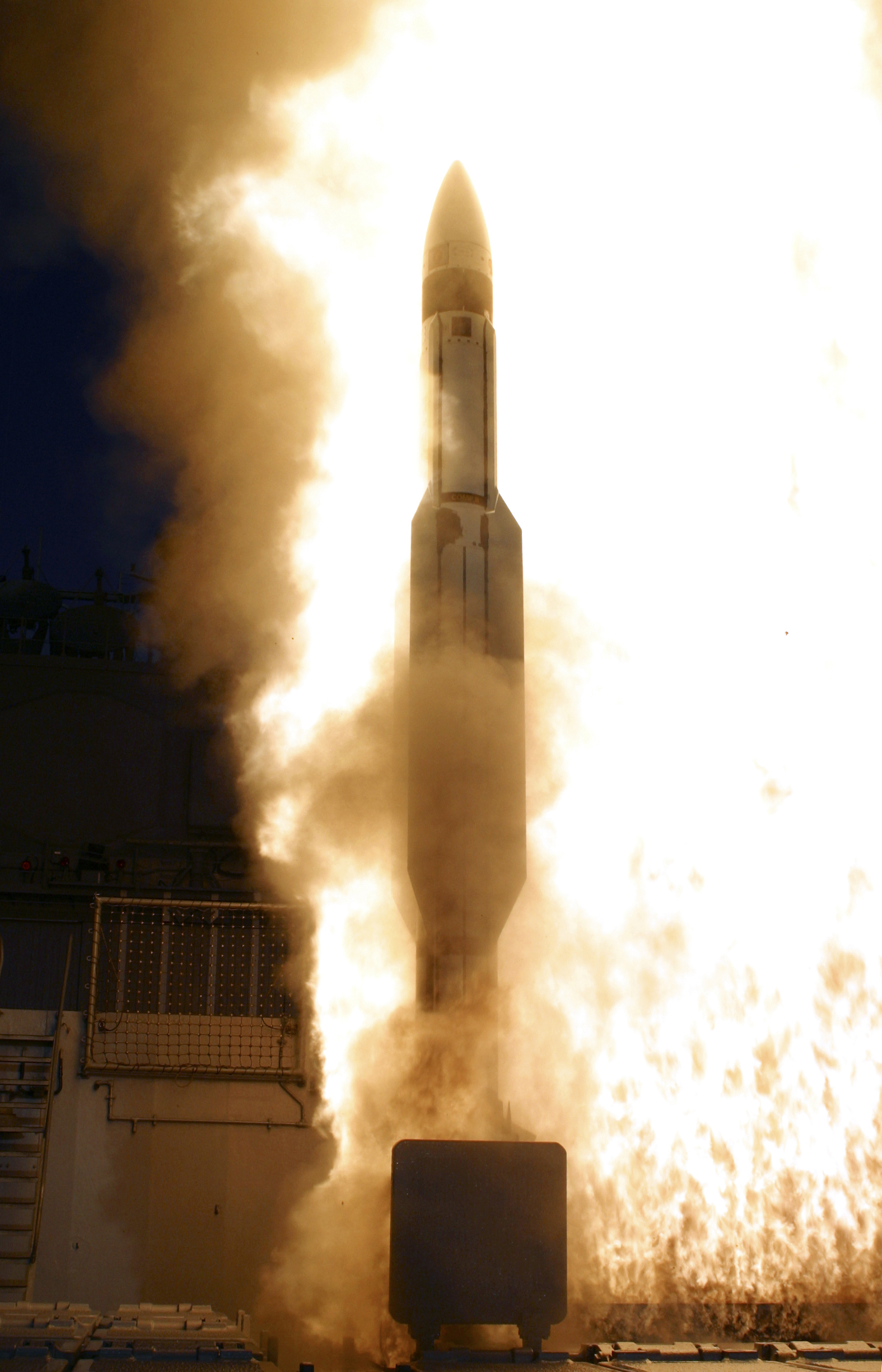 031211-N-0000X-003 Kauai, Hawaii -- A Standard Missile-3 (SM-3) is launched from the Aegis cruiser USS Lake Erie (CG 70) as part of the Missile Defense Agency's latest Ballistic Missile Defense System (BMDS) test to defeat a medium range ballistic missile threat. The SM-3, part of the Aegis Weapon System intercepted a target launched from the Pacific Missile Range Facility, Barking Sands, Kauai, Hawaii at an approximate speed of 3.7 kilometers per second. The two missiles collided several hundred kilometers from Kauai at an altitude of approximately 137 kilometers. The BMDS test included evaluation of the long-range surveillance and tracking capabilities of two Navy ships, the effective communications between the ships and command and control units in Colorado, and the launch of the SM-3 interceptor. This was the fourth successful intercept for the sea-based element of the BMDS. (RELEASED)